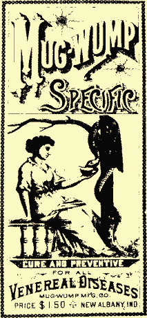 Mugwump Remedy for venereal disease, a patent medicine label. Approx. 1870, collection of uploaded.